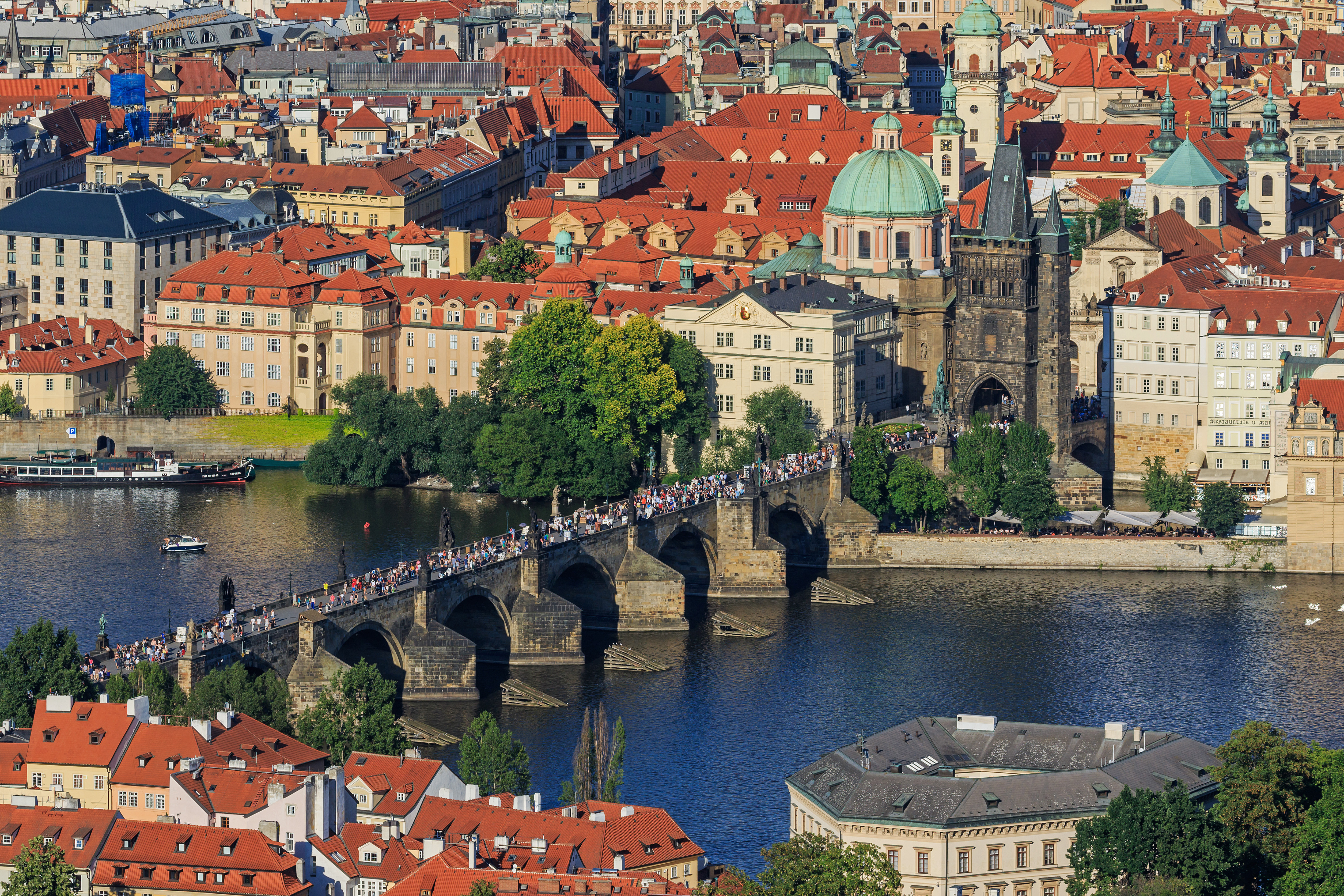 View from Petřín Lookout Tower in Prague (Czech Republic) – Charles Bridge